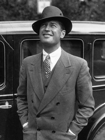 French actor and singer Maurice Chevalier (1888-1972).